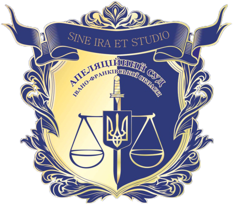 Coat of arms of the Court of Appeal for Ivano-Frankivsk Oblast, Ukraine